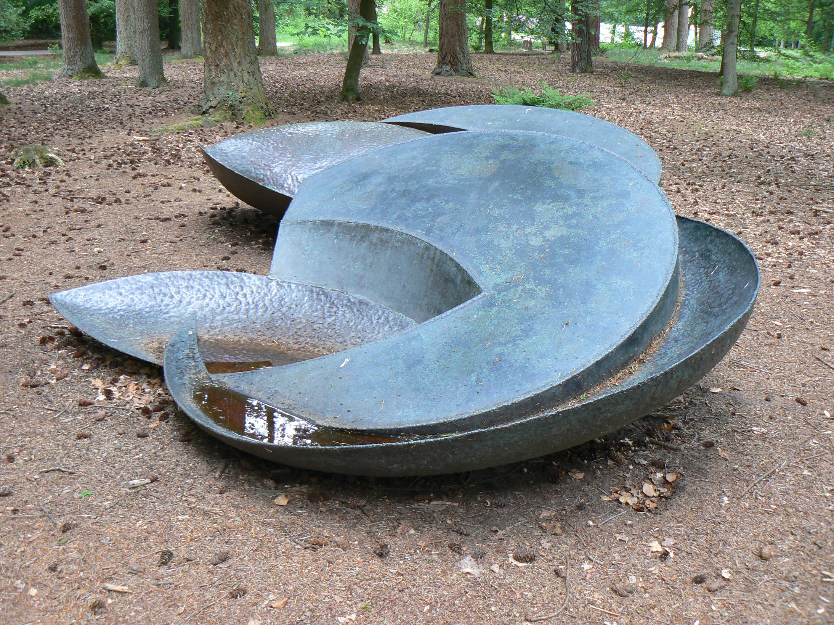 sculpture Angel with ten thousand wings (1988) by S. Houshiary in beeldenpark KMM/The Netherlands